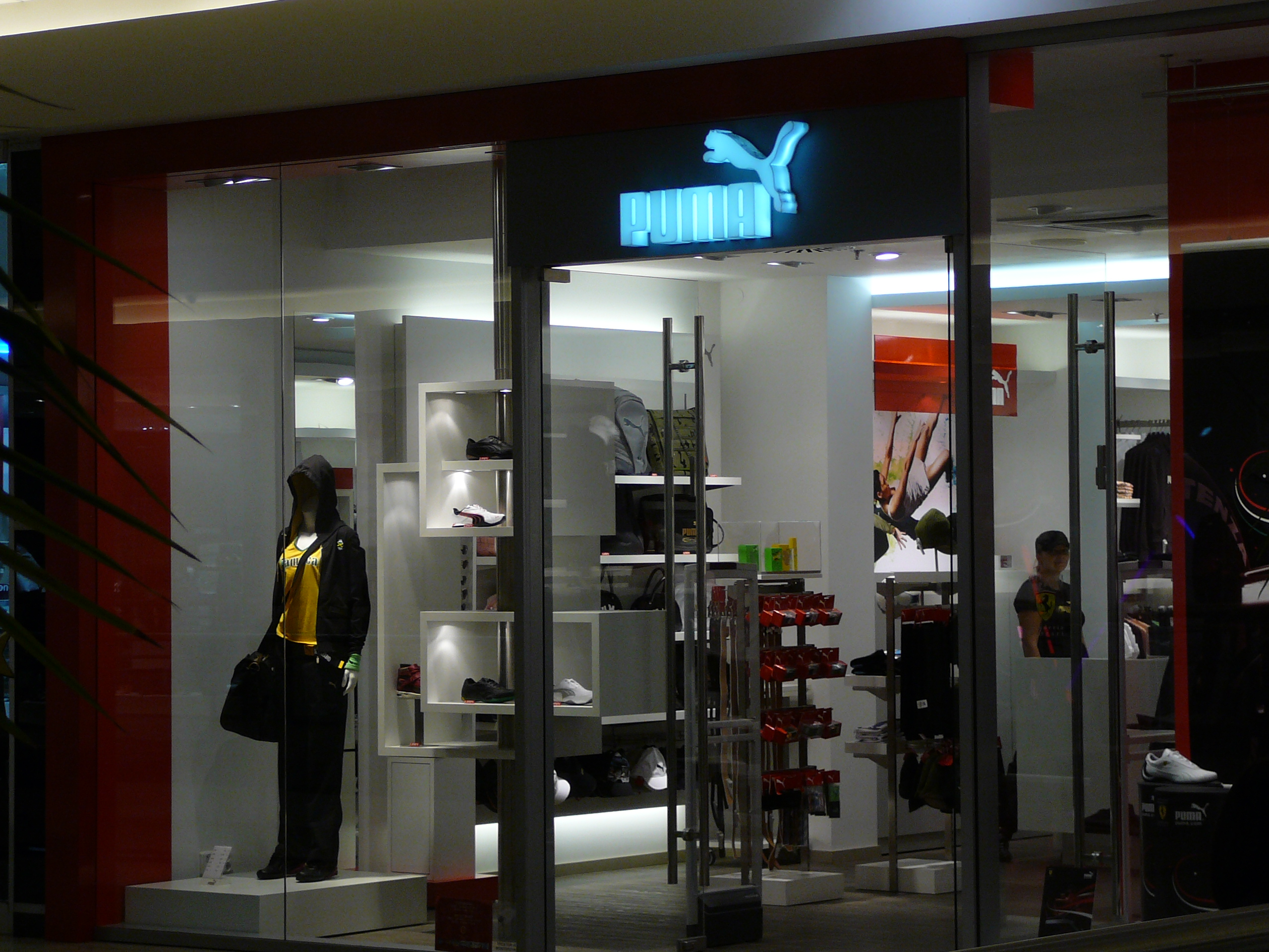 Puma in Vaňkovka in Brno